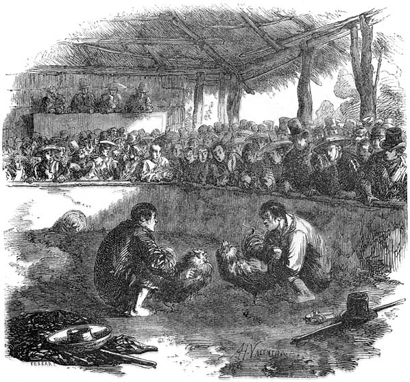 Philippine cockfight, early 1800s. Original caption: Combat de coqs. From Aventures d'un Gentilhomme Breton aux iles Philippines by Paul de la Gironiere, published in 1855.